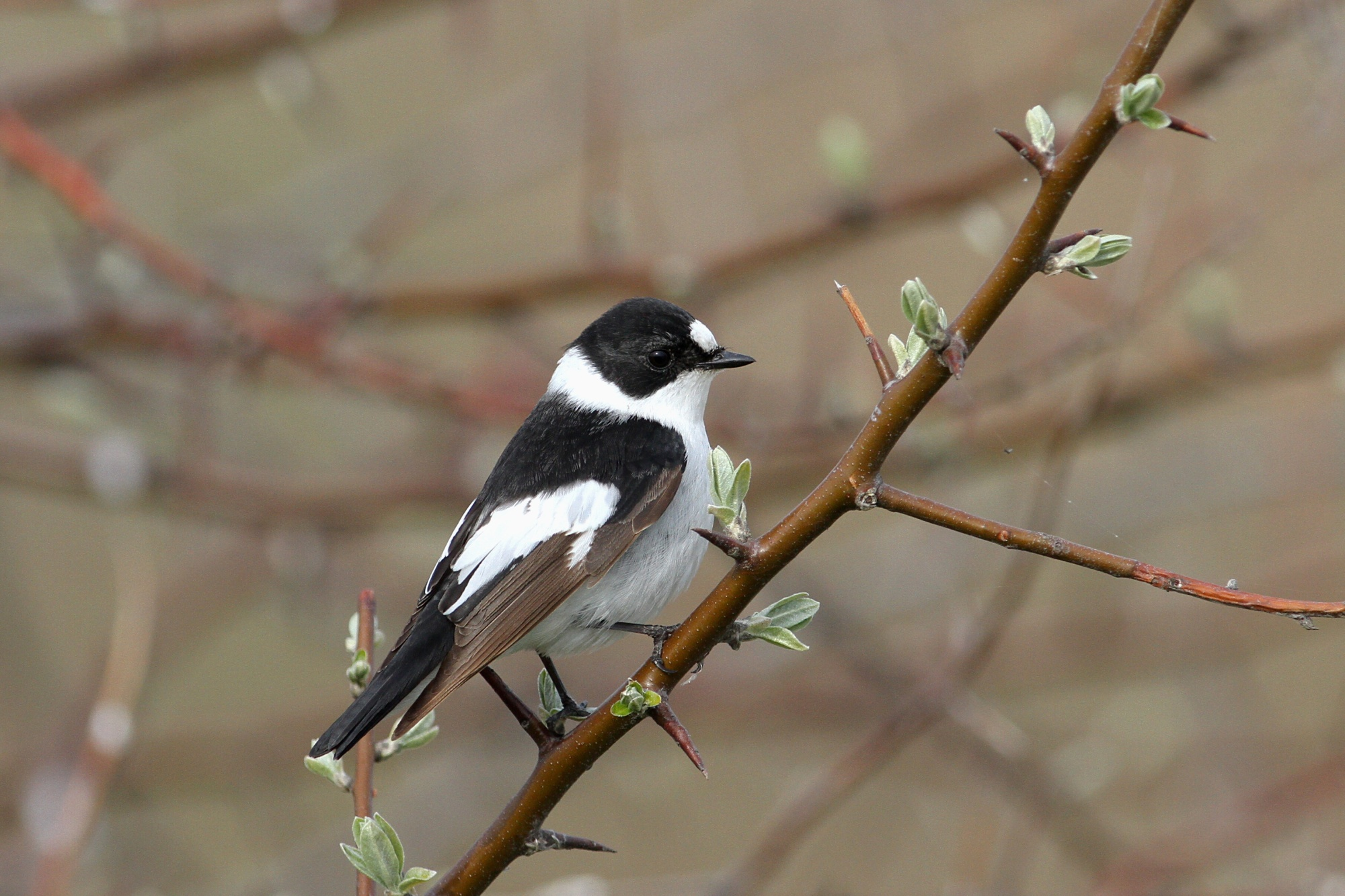 Vadu, Delta Dunaja, Rumunsko